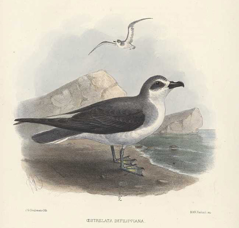 Plate {XXXIII} from Rowley's 'Ornithological Miscellany.'